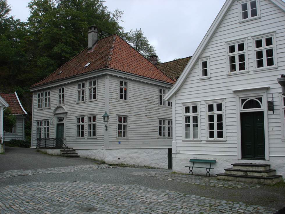 Weatherboarding on log houses at Gamle Bergen Museum, Norway